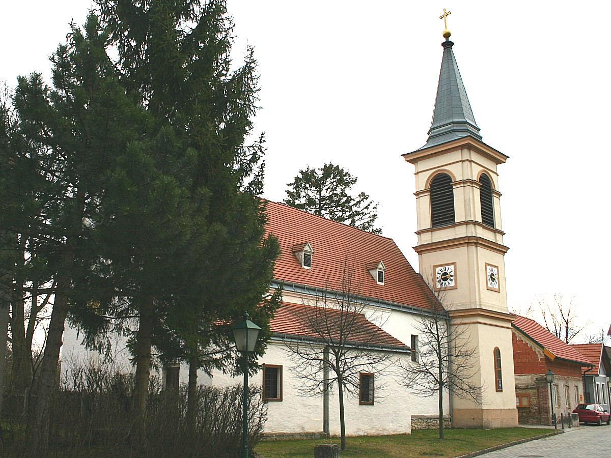 Former parish church Assumption of Mary, Winzendorf, Lower Austria